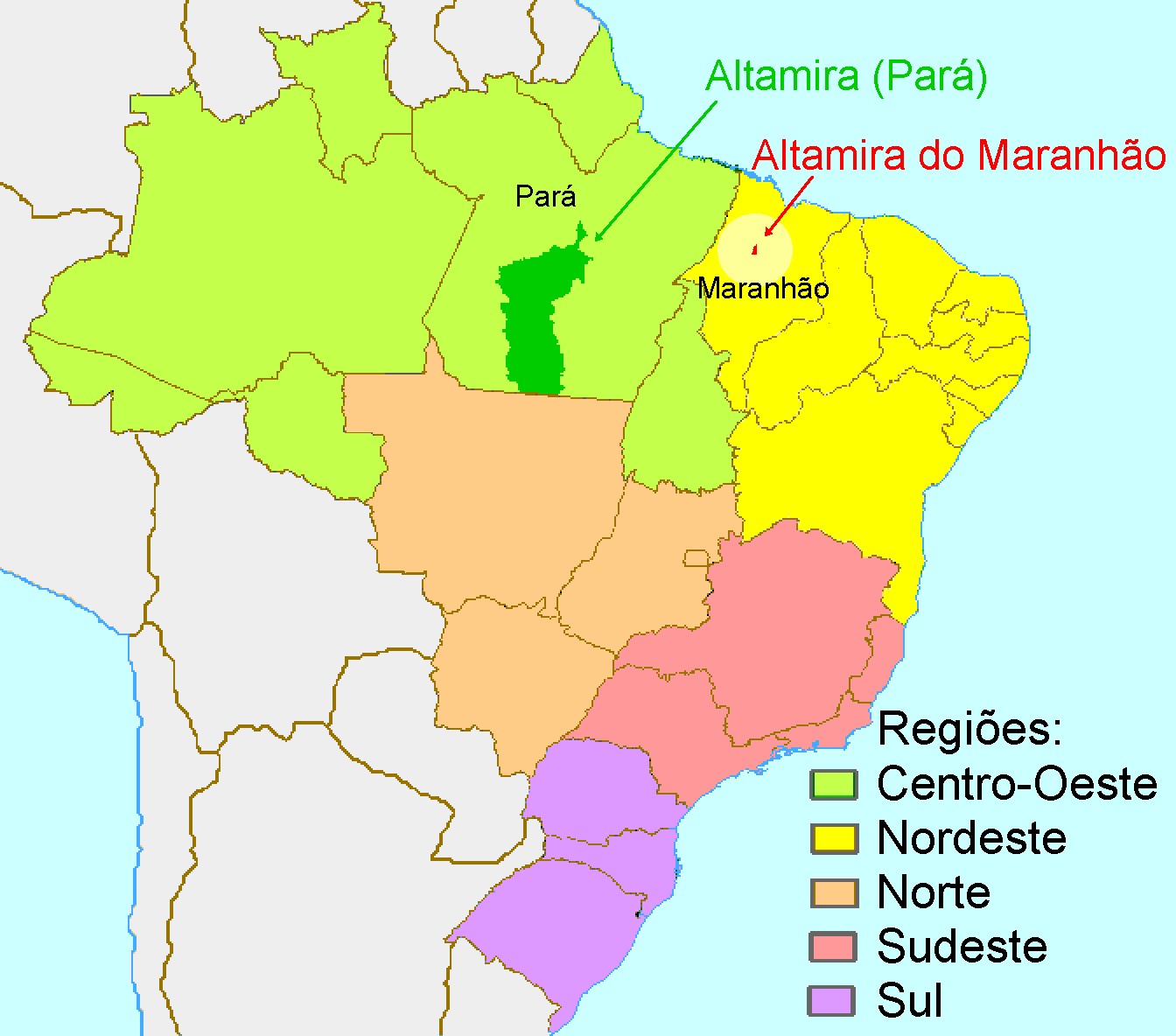 Locator map of Brazil's two "Altamira" localities.